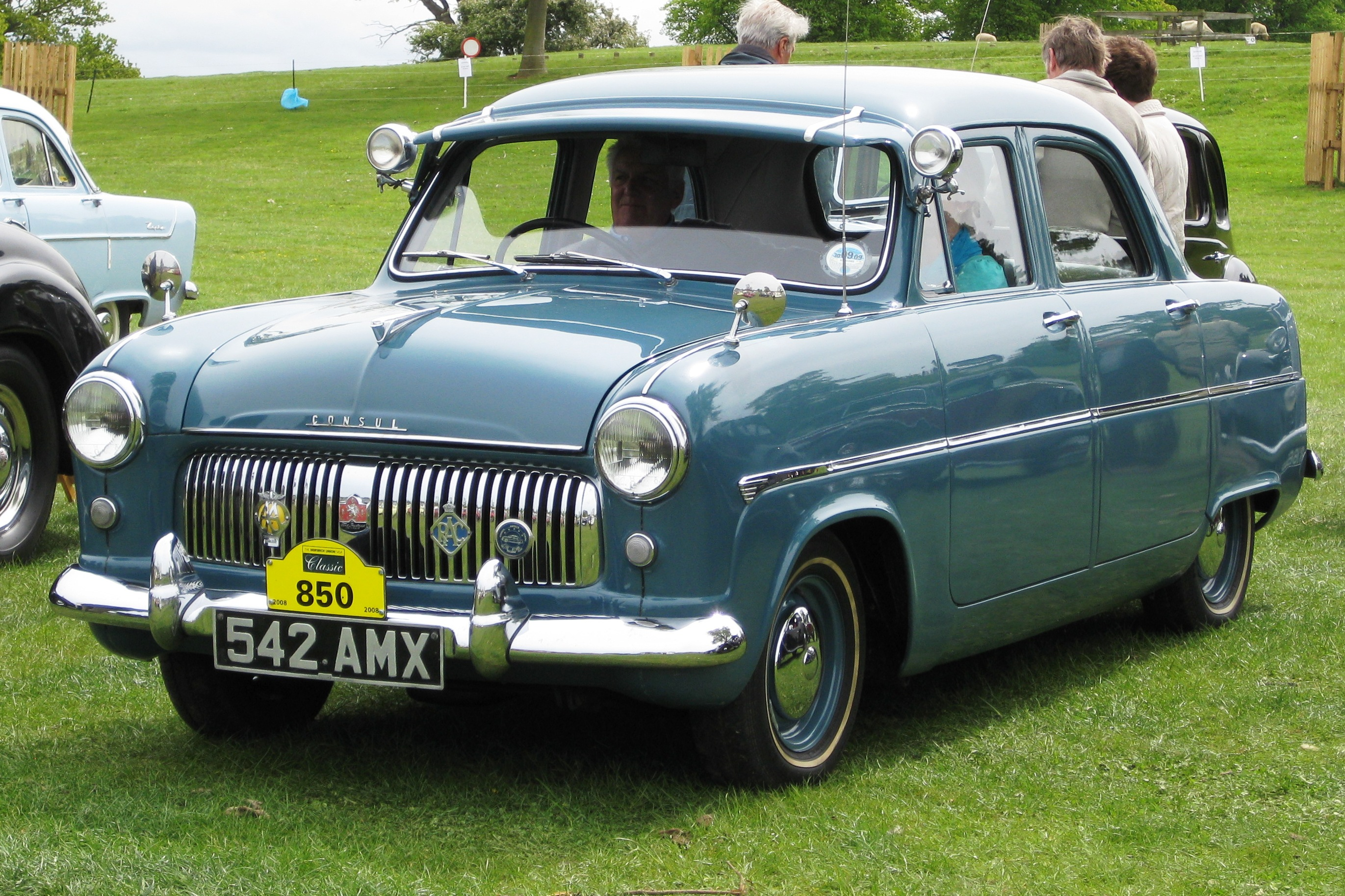 Ford Consul near Biggleswade